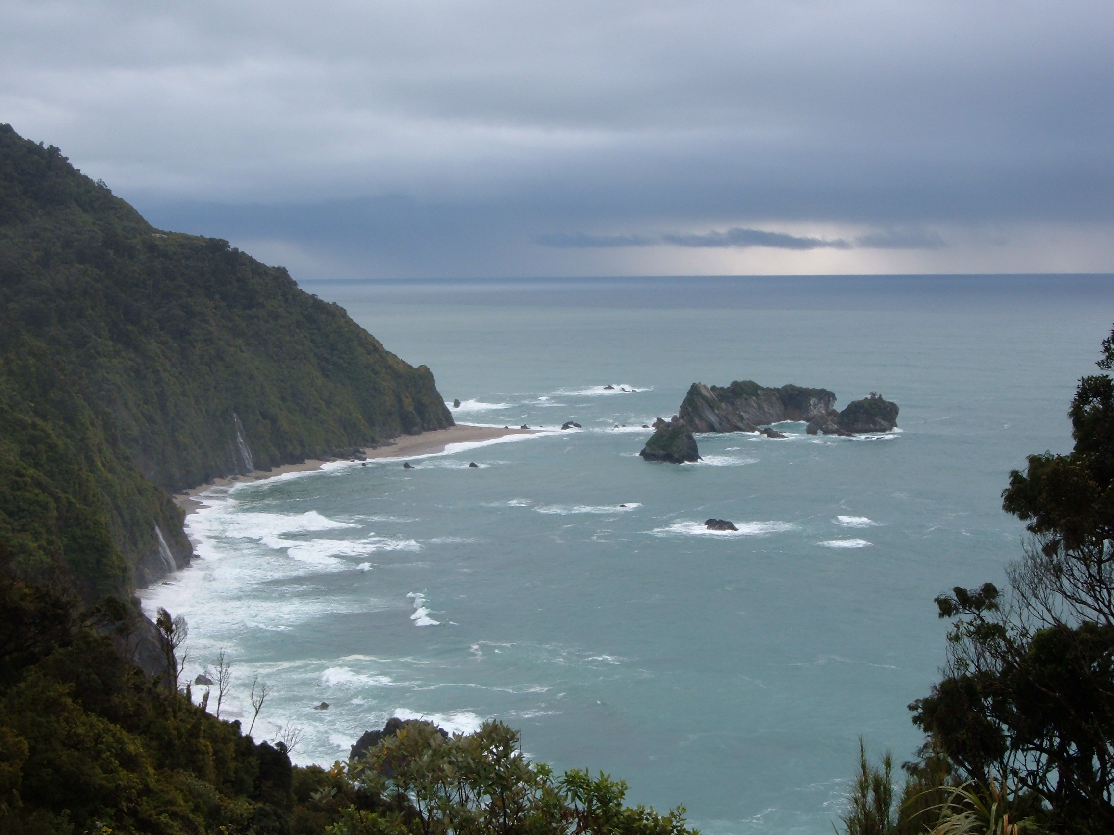 A view from Knight's Point, West Coast, New Zealand.